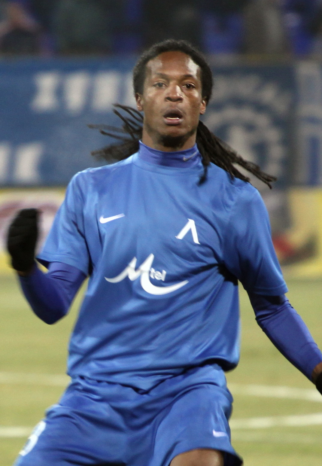 Serginho Greene (born 24 June 1982 in Amsterdam) - Dutch association football player who is currently playing for Levski Sofia in the Bulgarian A PFG.